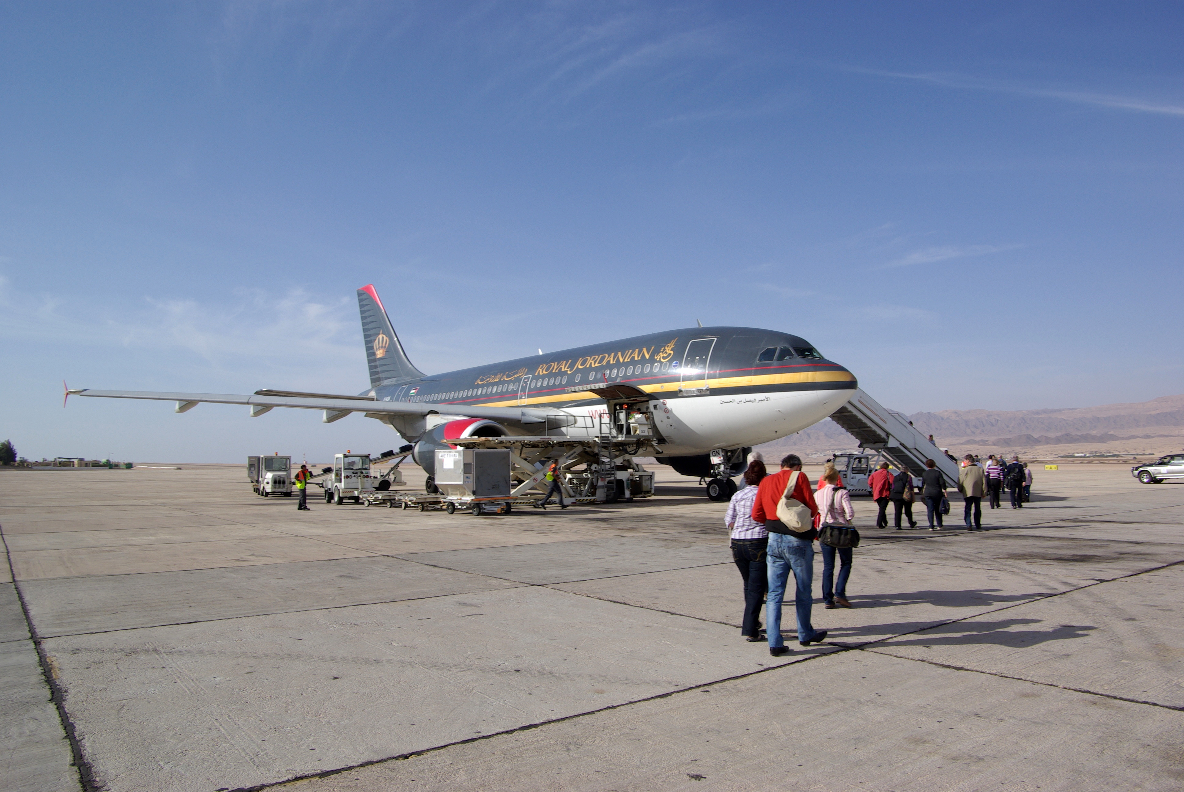 Aqaba, Airport, Airbus